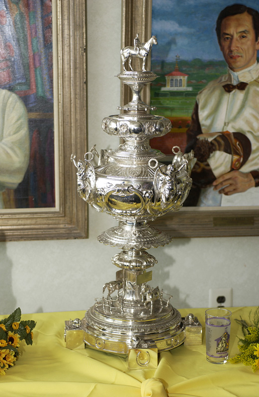 This is a picture I took covering the 2002 Preakness Stakes at Pimlico Race Course in Baltimore, Maryland. Note that I placed a Black-Eyed Susan glass in front of the Trophy in order to give people an idea of just how big the trophy is.